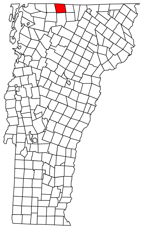 Description: Map of Vermont towns with Richford highlighted Source: Map created by Jared C. Benedict on 26 March 2004. Copyright: © Jared C. Benedict.